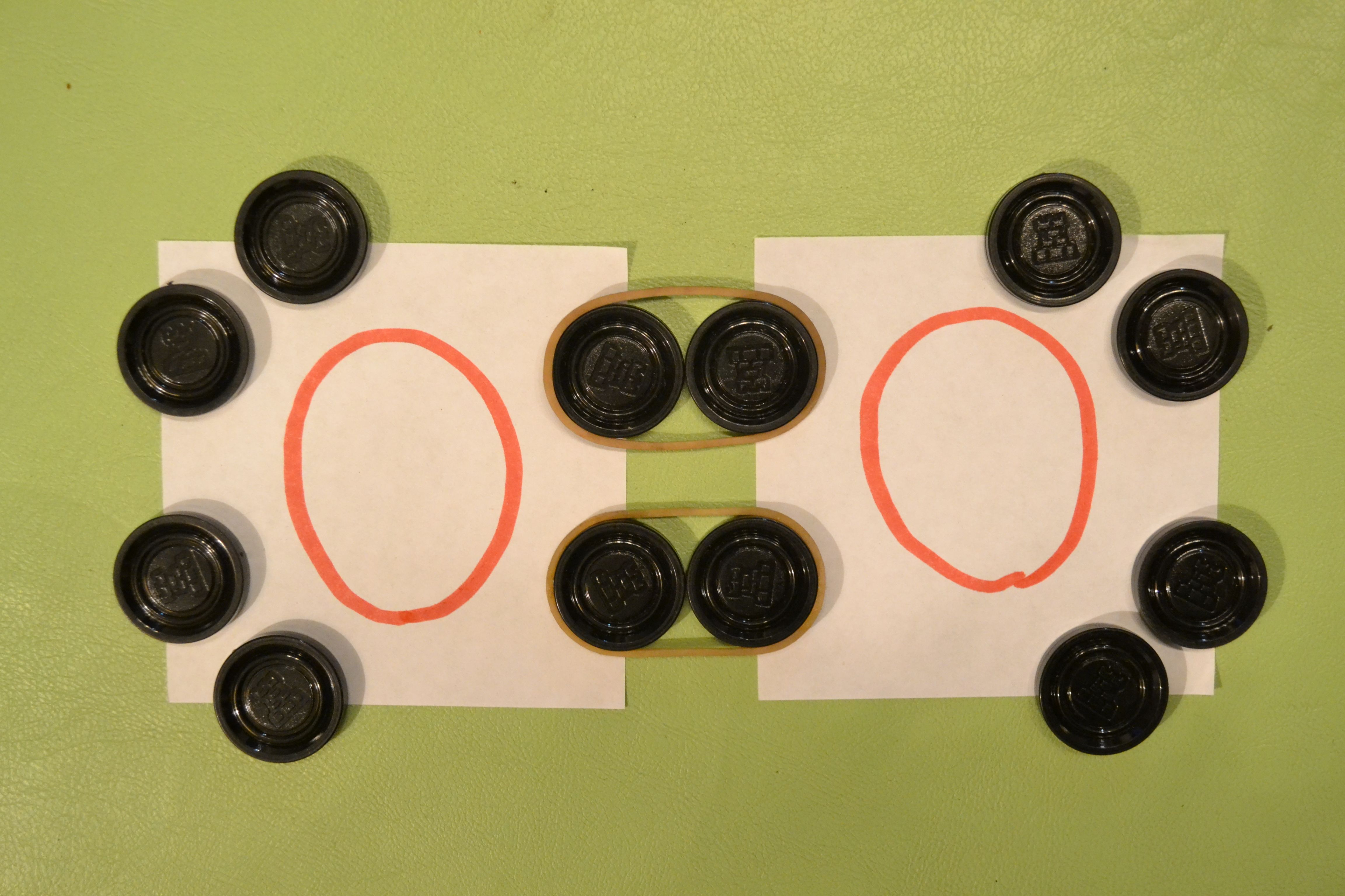 Electrons of the last layer of 2 oxygen atoms